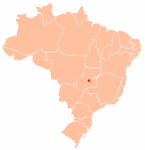 Location of the city of Goiânia in Brazil